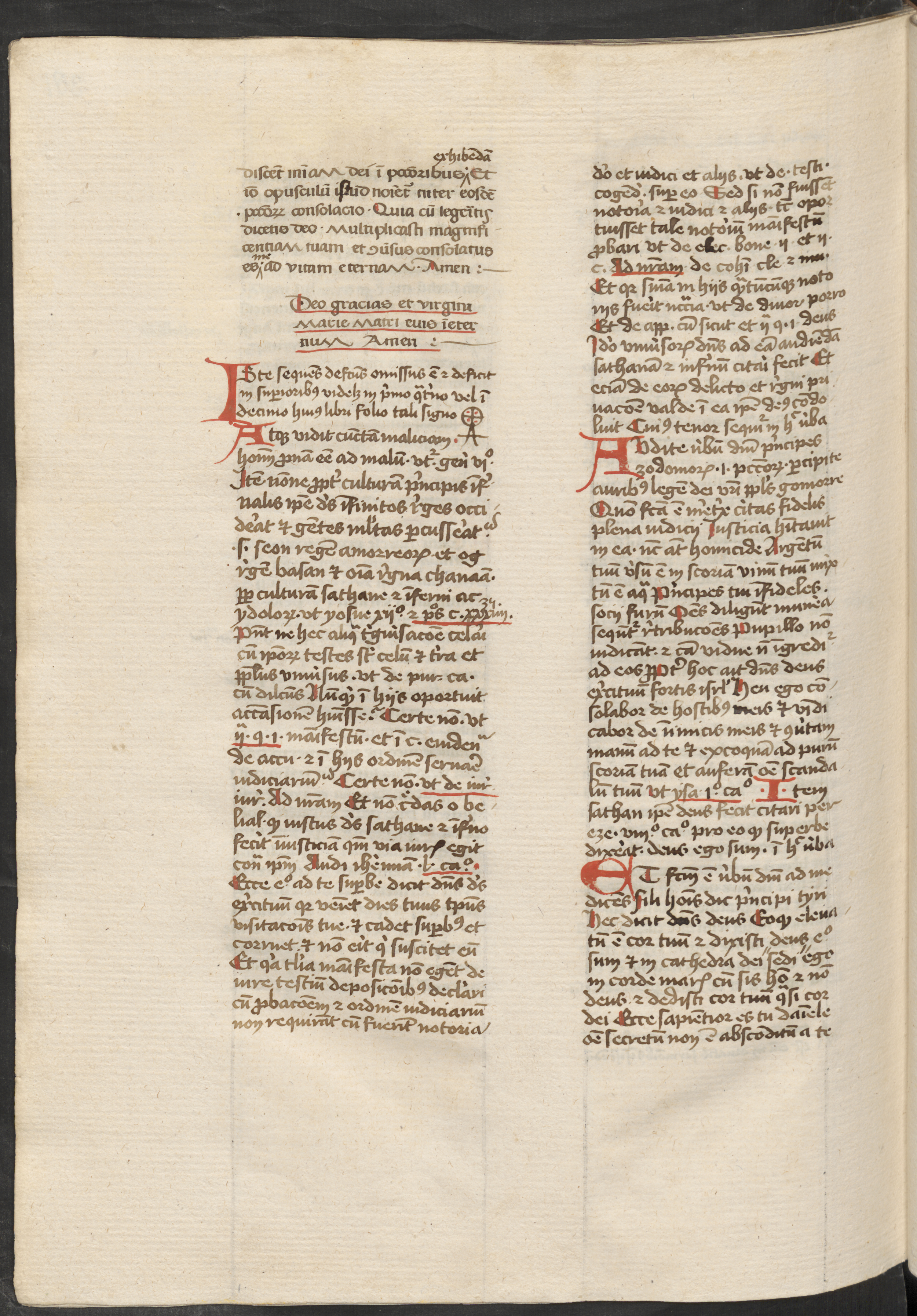 Ms.146 (4 D 6), fol.381v.